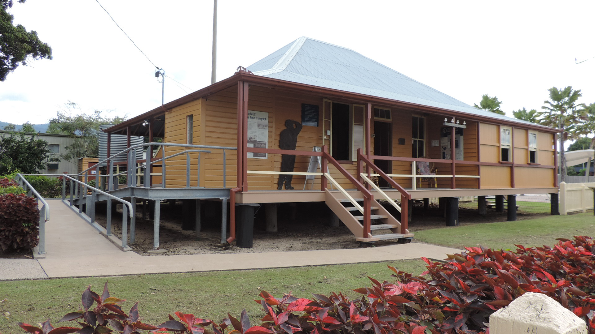 Mail sorting display, Cardwell Bush Telegraph, 2016 so